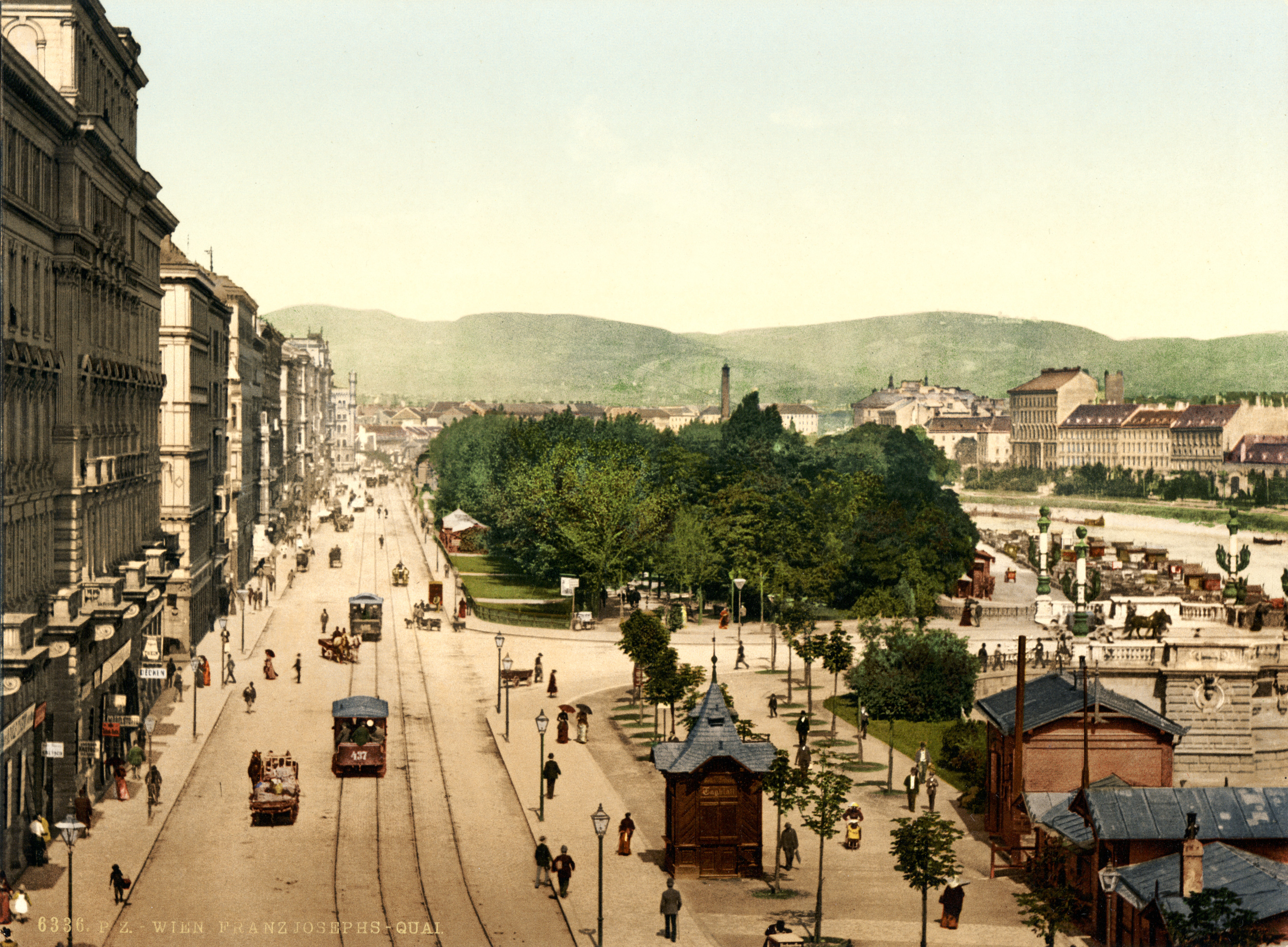 Quay Francis Joseph, Vienna, Austro-Hungary. 1 photomechanical print : photochrom, color.